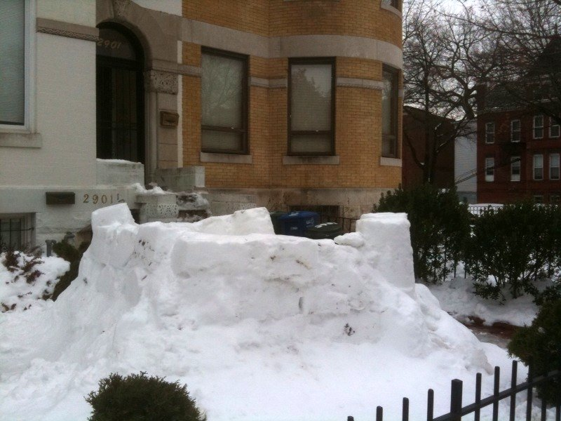 A snow fort in the Columbia Heights neighborhood of Washington, DC, 2009